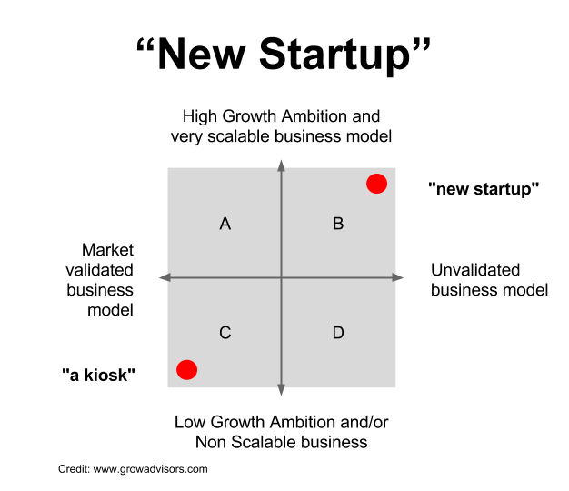 This image shows a simplified method for identifying a potential startup company from just a new company.